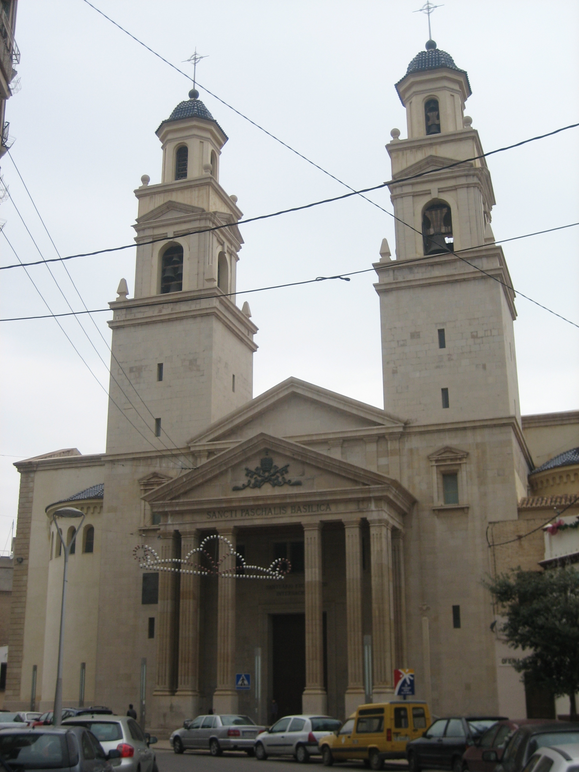 St. Paschal Basilica of Vila-real